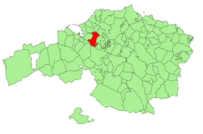 Erandio municipality in the province of Biscay